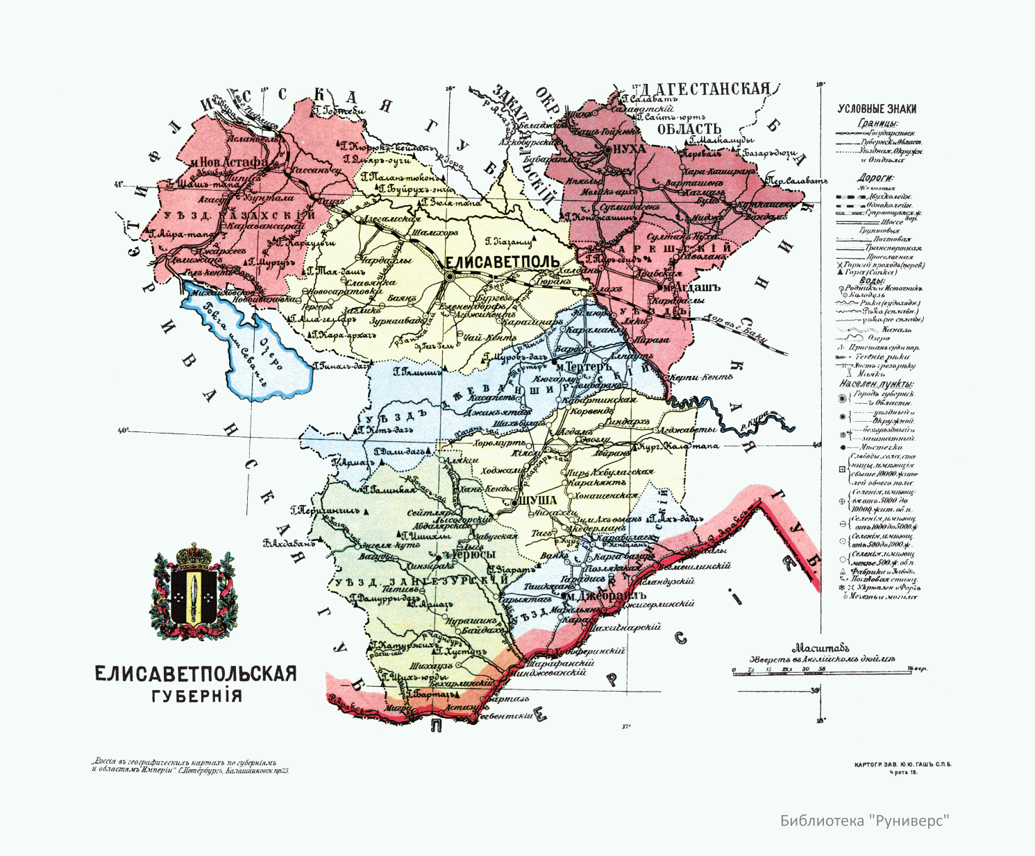 Administrative map of Kars Oblast: showing the main settlements.